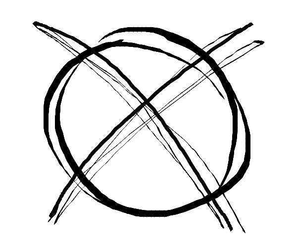 Symbol Proxy